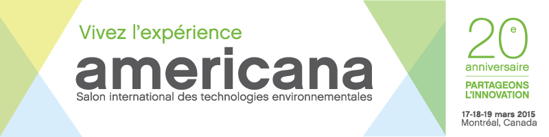 Americana 2015